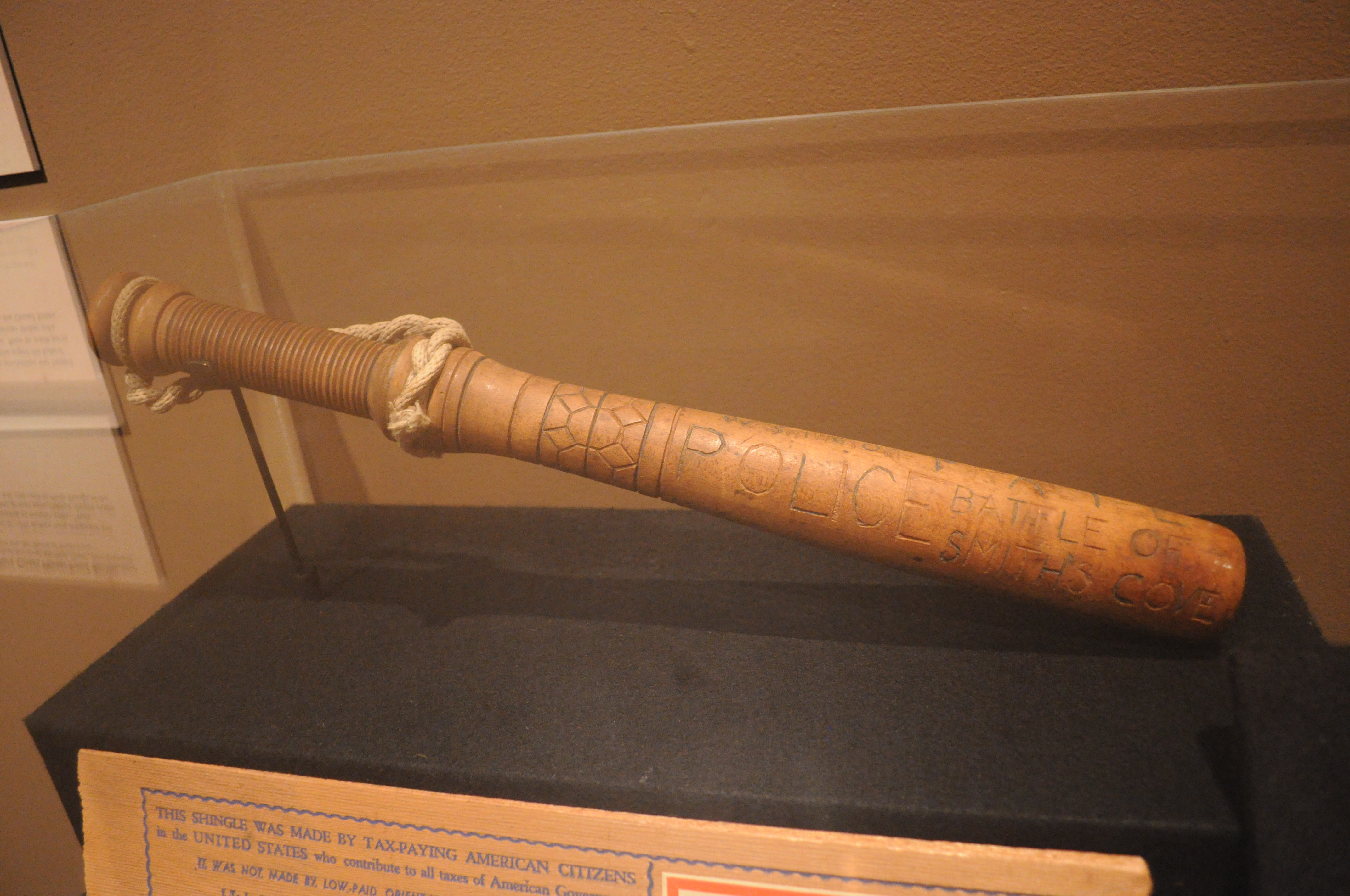 A presumably ironic "Fragile" An engraved billy-club commemorating the Battle of Smith Cove in 1934, in which police fought with maritime labor activists near Smith Cove, Seattle, Washington. Visible in this photo are the words: "Police" and "Battle of Smith's [sic] Cove". File:Battle of Smith Cove commemorative billy club 02.jpg shows "[Illegible] Washington" and a presumably ironic "Fragile". Washington State History Museum.